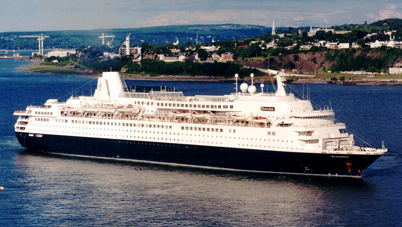 The cruise ship Westerdam leave Québec City on August 20, 1997.